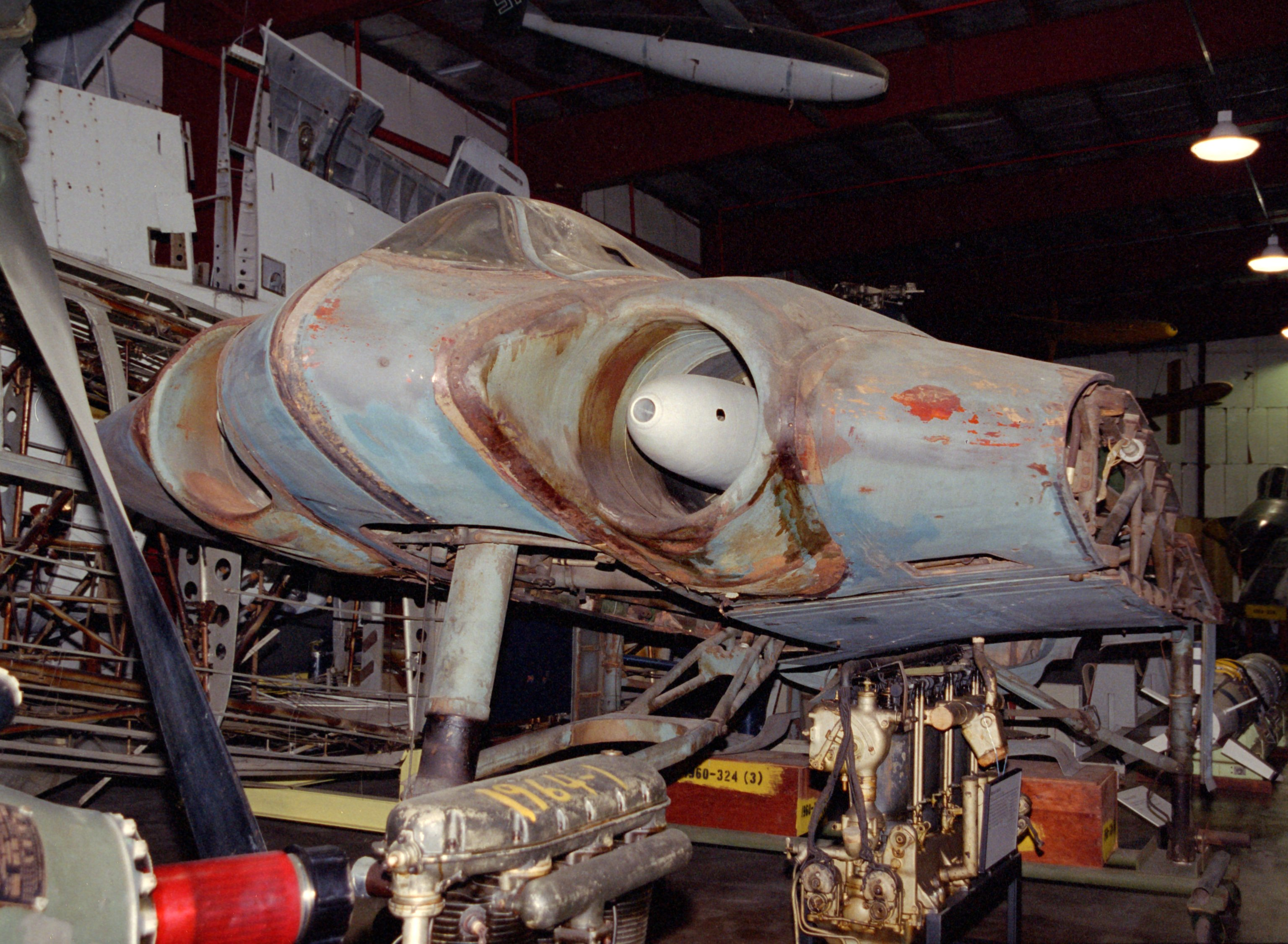 Horten Ho 229 (Horten H.IX) at the Smithsonian Institution's Garber Restoration Facility. Photographed by Michael Katzmann, 2000